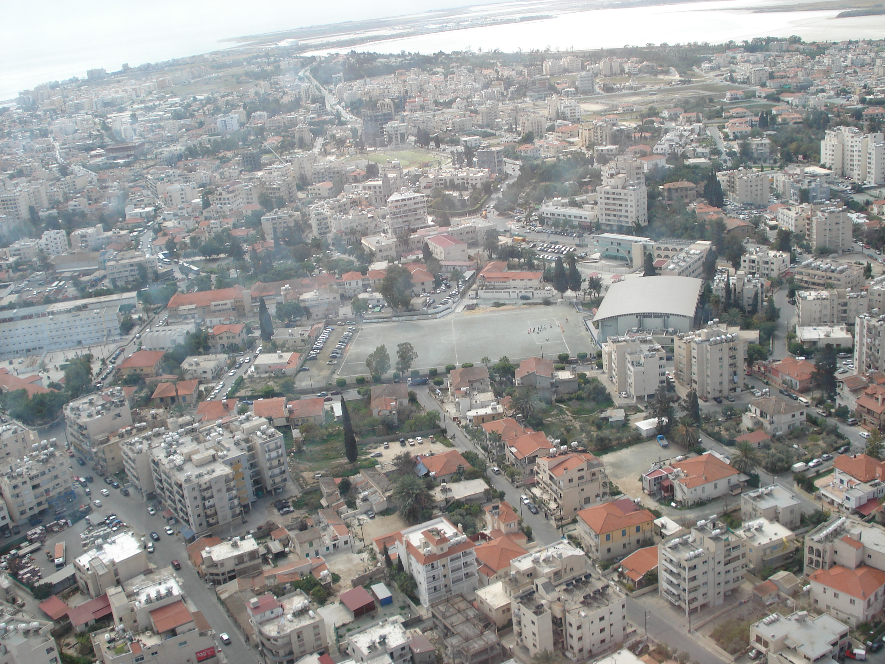 Larnaca, in Cyprus